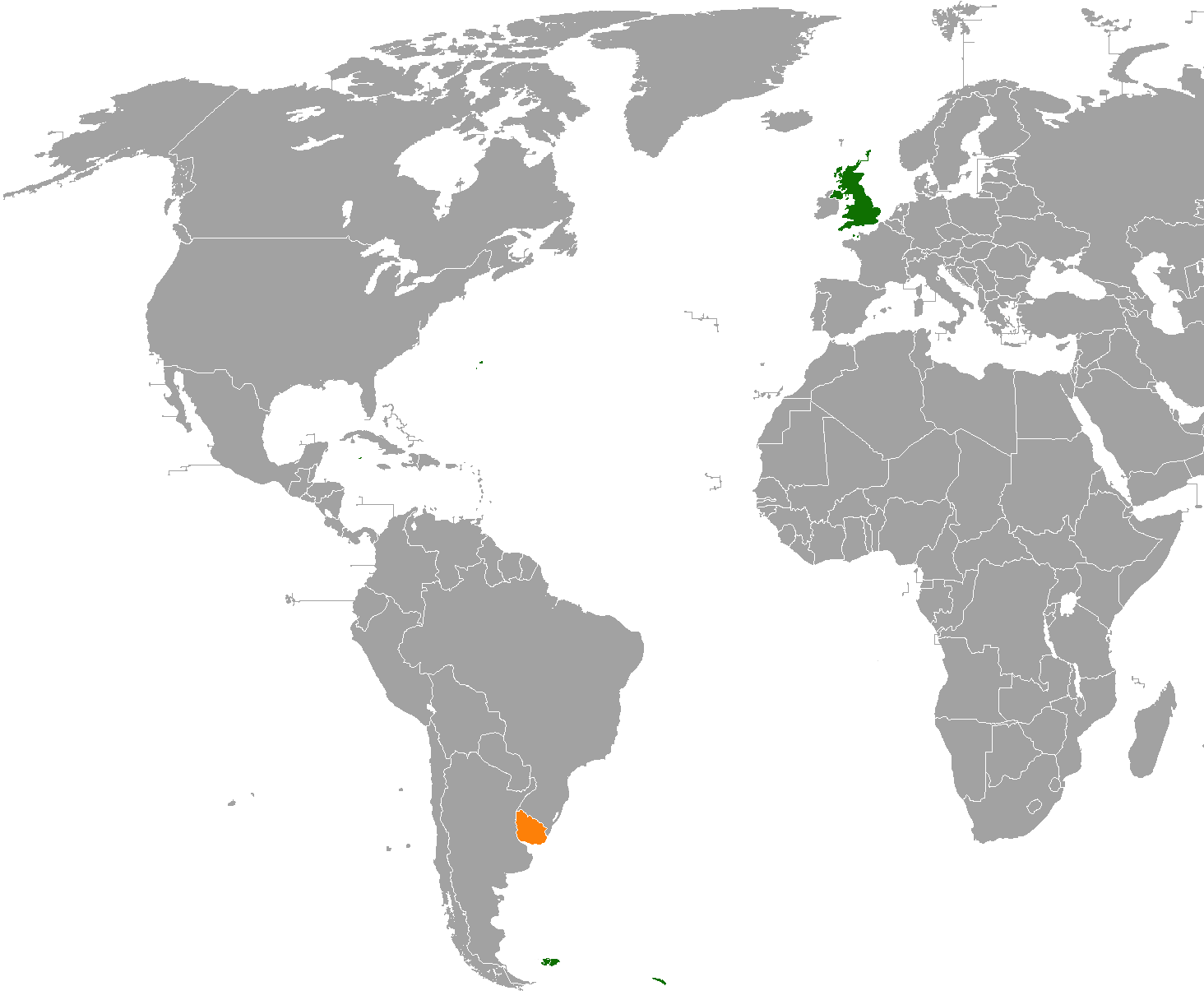 the United Kingdom-Uruguay locator map. I made this map out of a licence free blank map of the world.